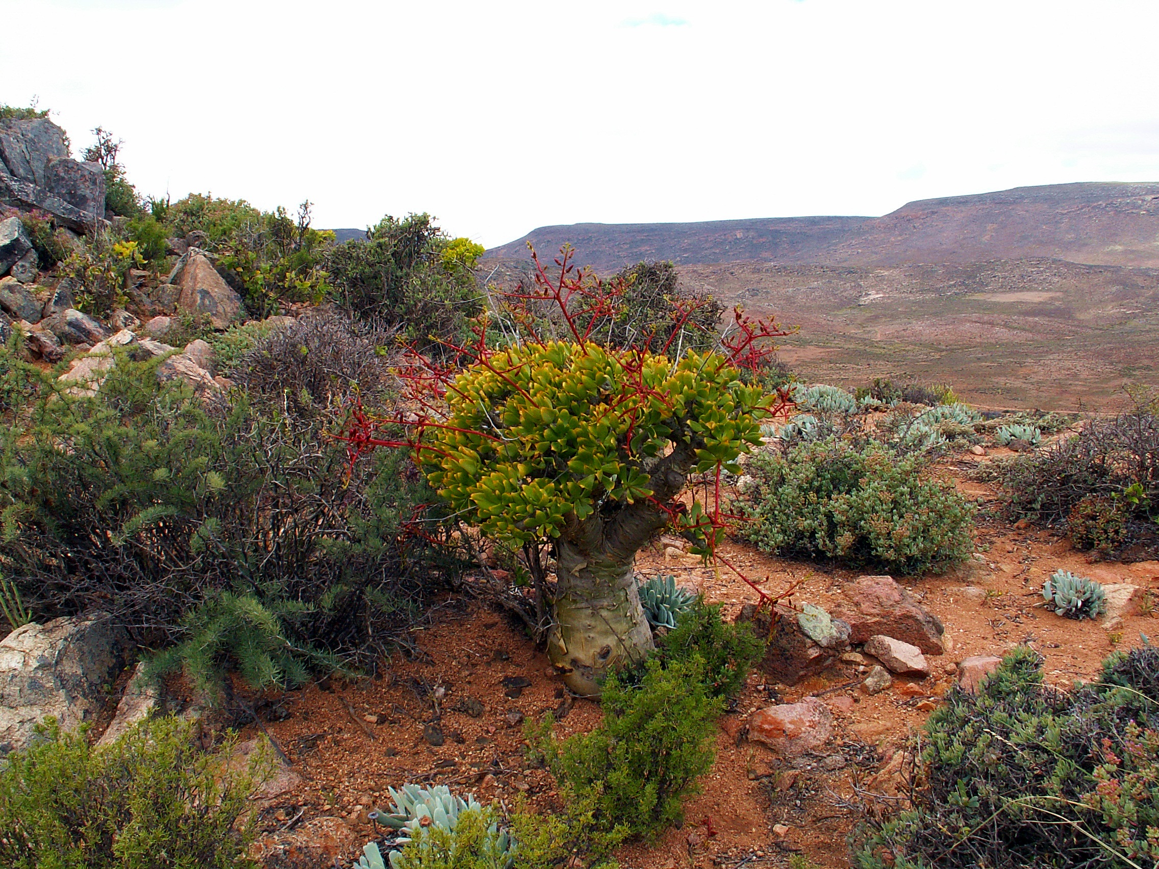 Butter tree, (Tylecodon paniculatus (L.f.) Tölken); Crassulaceae; Richtersveld National park, Northern Cape, South Africa